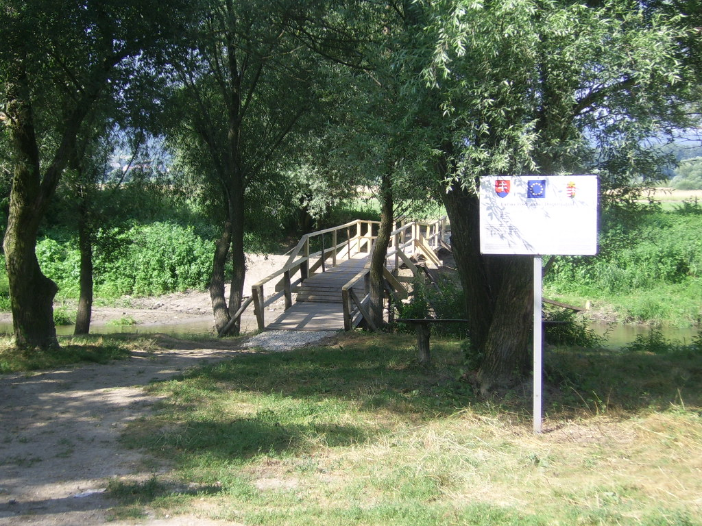 Bridge between Drégelypalánk and Ipeľské Predmostie, Slovakian side of the Ipoly/Ipel'